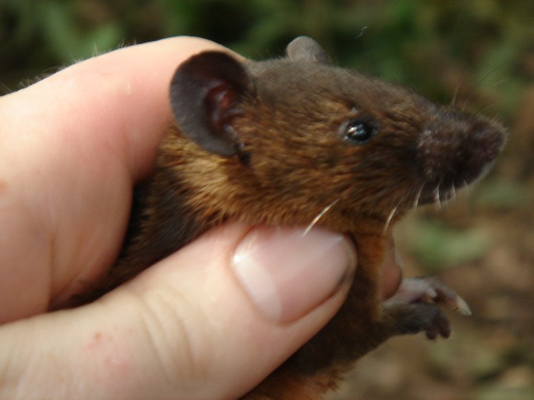 Lophuromys sikapusi photograph taken by me in Sierra Leone.